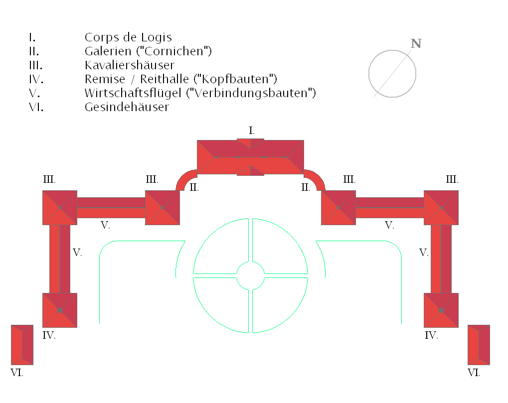 Bothmer Palace, Plan